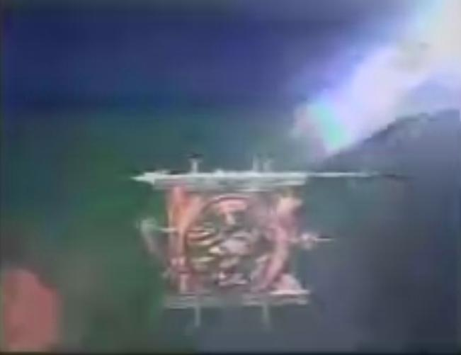 The Ocean Surface Topography Mission separates from the Delta II rocket which launched it.